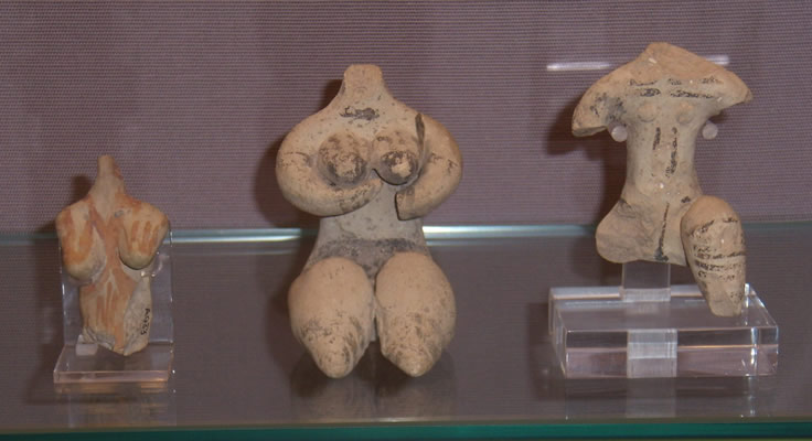 Clay figure of the Halaf Culture, around 5500 BC, British Museum